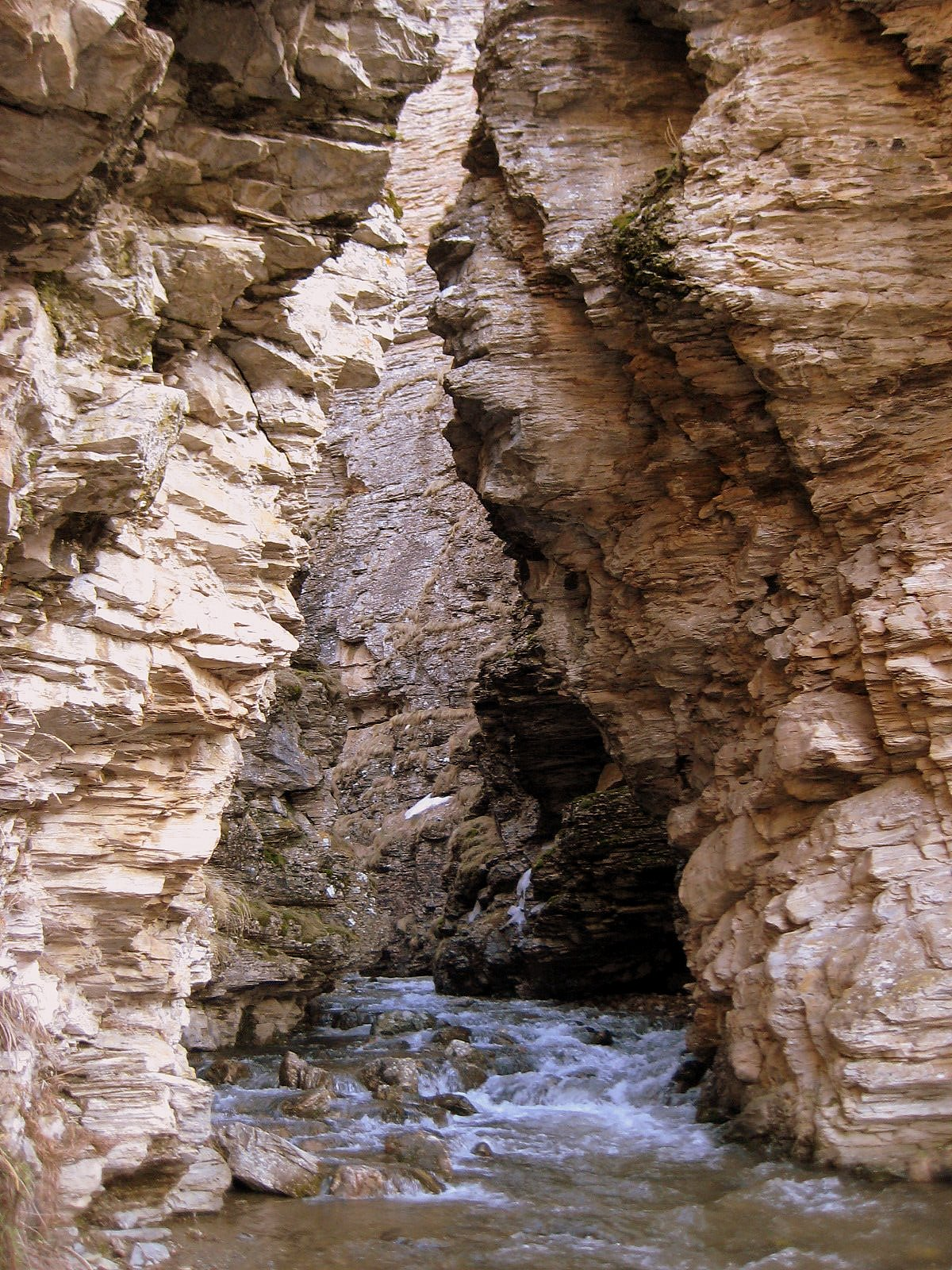 Brod Canyon, near Brod, Kosovo. Photos from Arianit Dobroshi for Wikimedia Commons. Original Filename "arianit/Brod/image191.jpg"